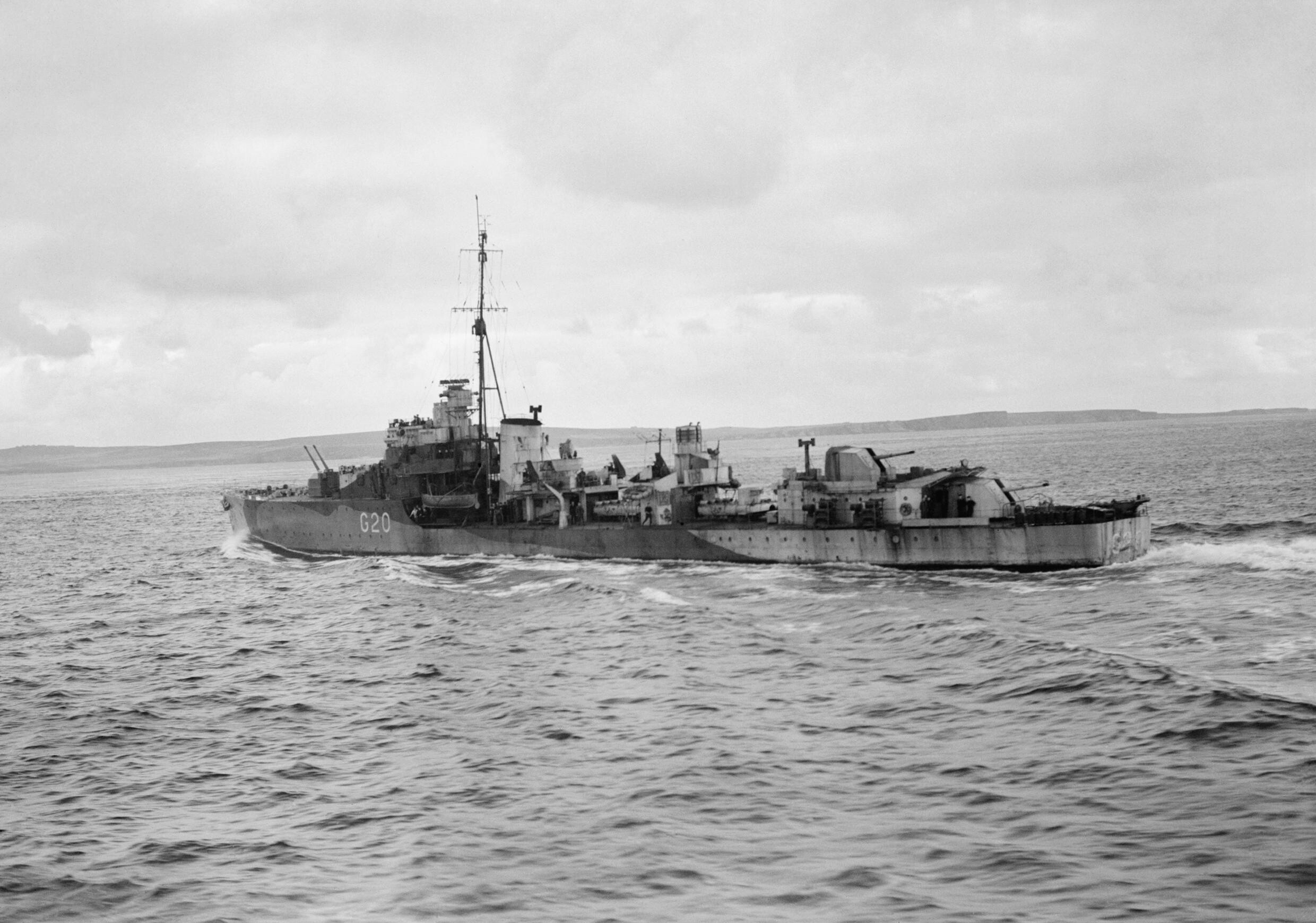 The Royal Navy during the Second World War Looking weather battered and worn, the destroyer HMS SAVAGE enters Scapa Flow after the Battle of the North Cape which resulted in the sinking of the German battle-cruiser SCHARNHORST.